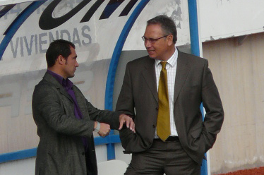 miguel alvarez, lorca's coach, talks with leo